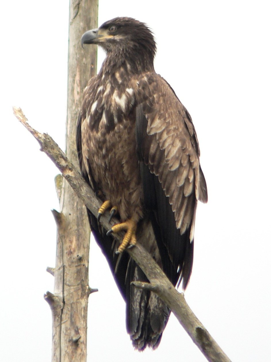 Bald Eagle, first year juvenile